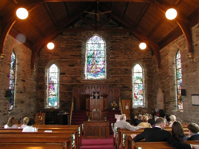 Kilbrandon Church Interior Showing the five stained glass windows which were presented the church in 1938